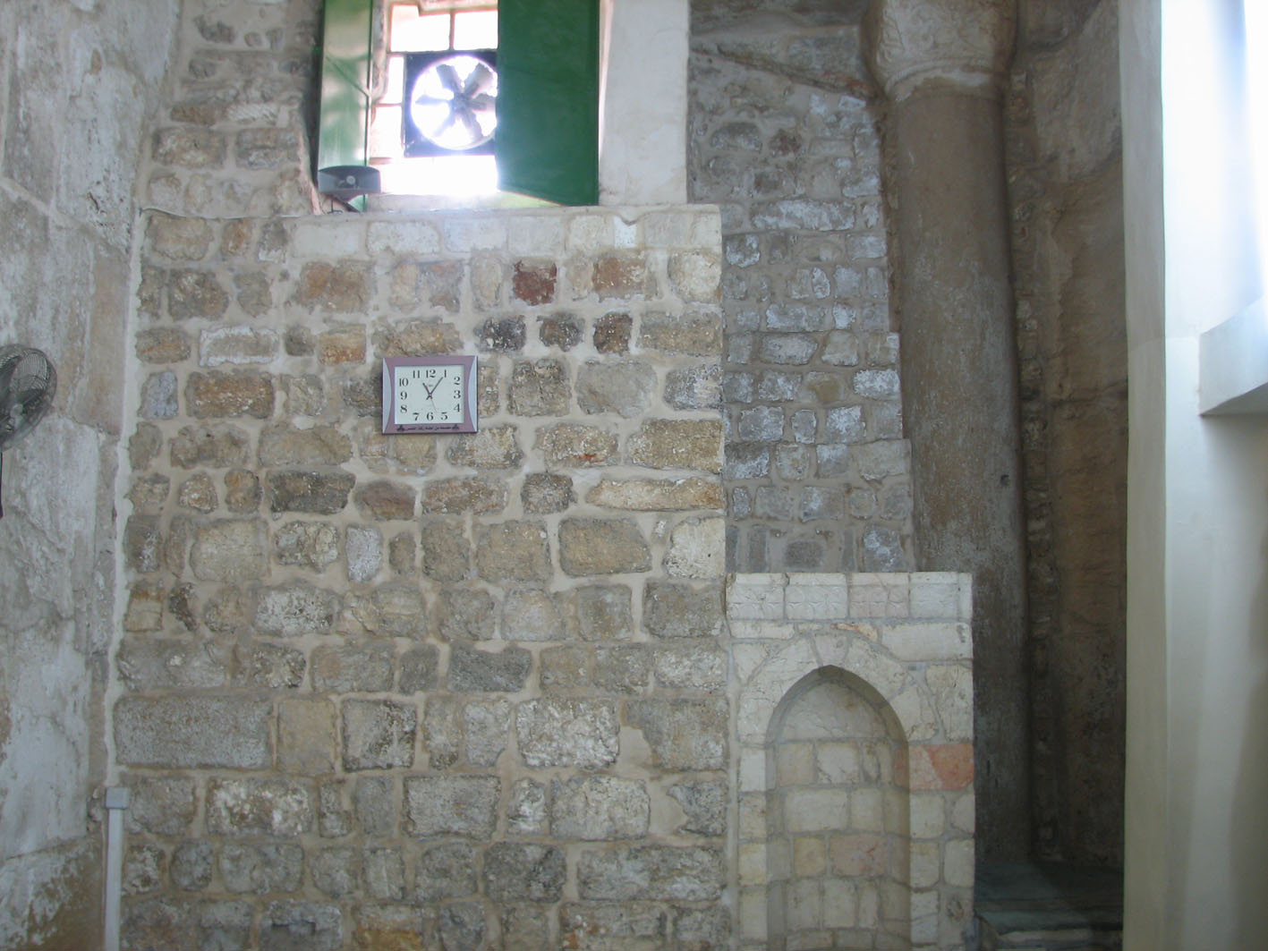 Al-Aqsa Mosque